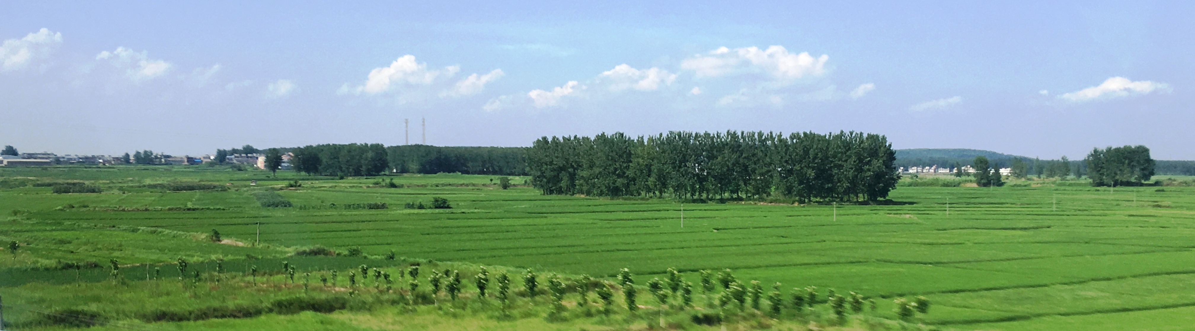 Image from the commune of Lianpuxiang in Dinguyan county/district, a part of Chuzhao prefecture-Level city in Anhui, China.